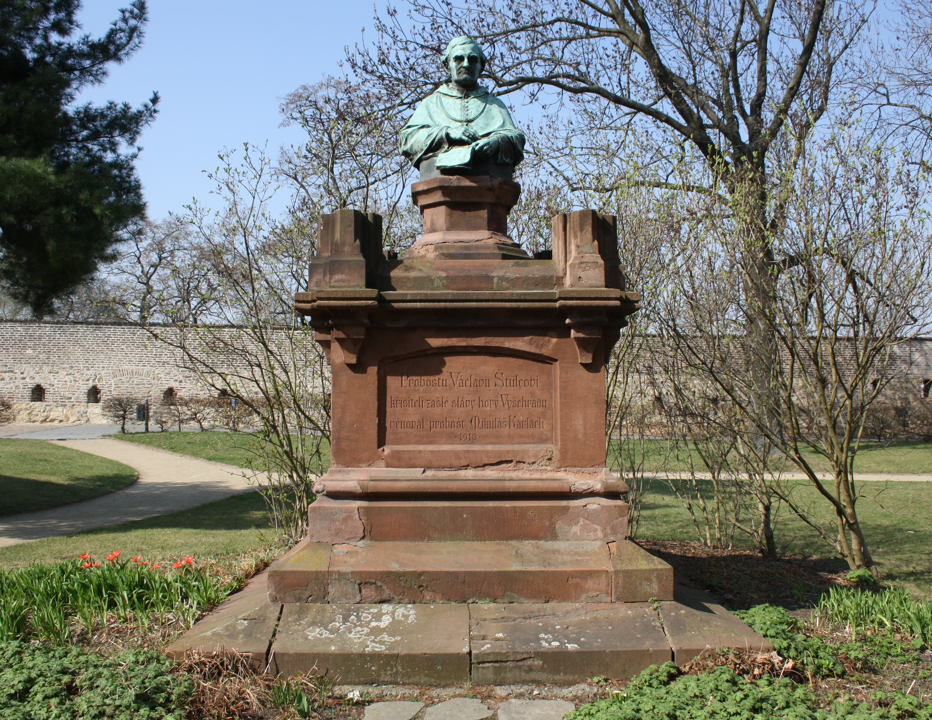 Bust of provost Václav Štulc, Vyšehrad, Prague, Czech Republic This photograph was taken with a DSLR from WMCZ's Camera grant.